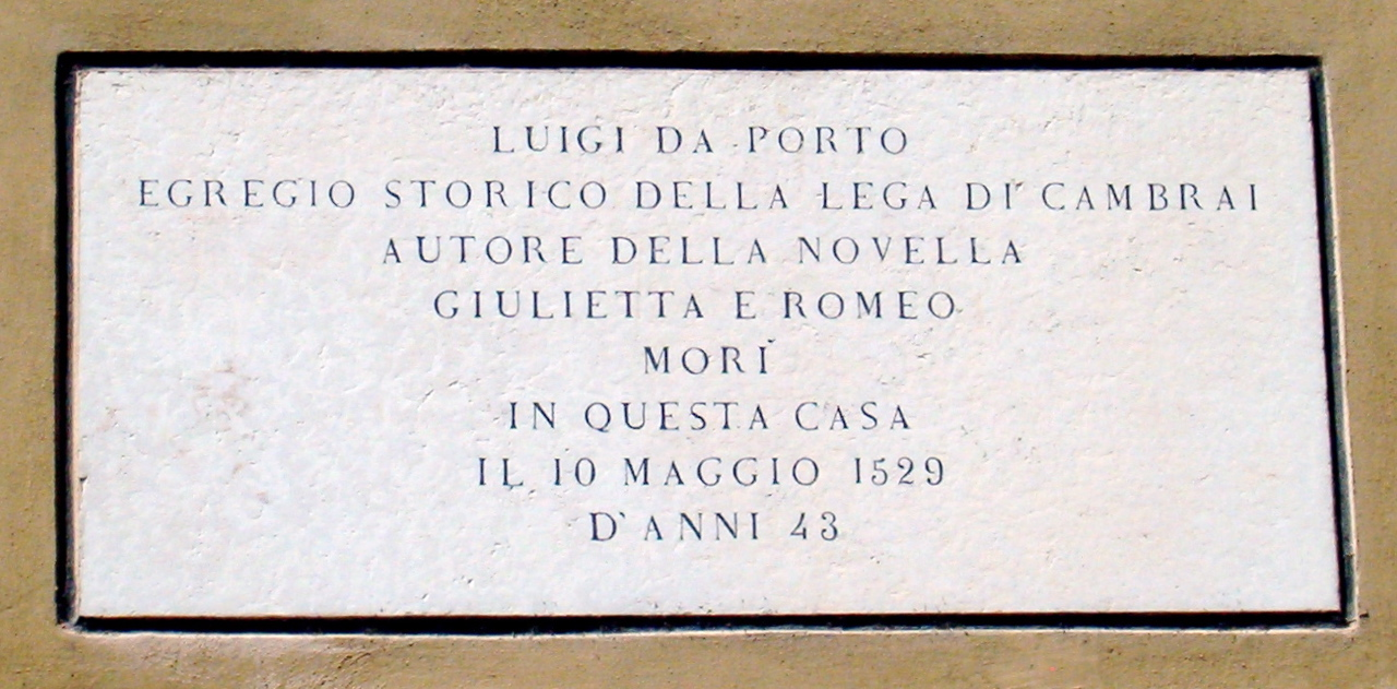 A plaque commemorating Luigi da Porto, who wrote the first version ever of "Romeo and Juliet", and who died in this house in Vicenza (15) in 1529.